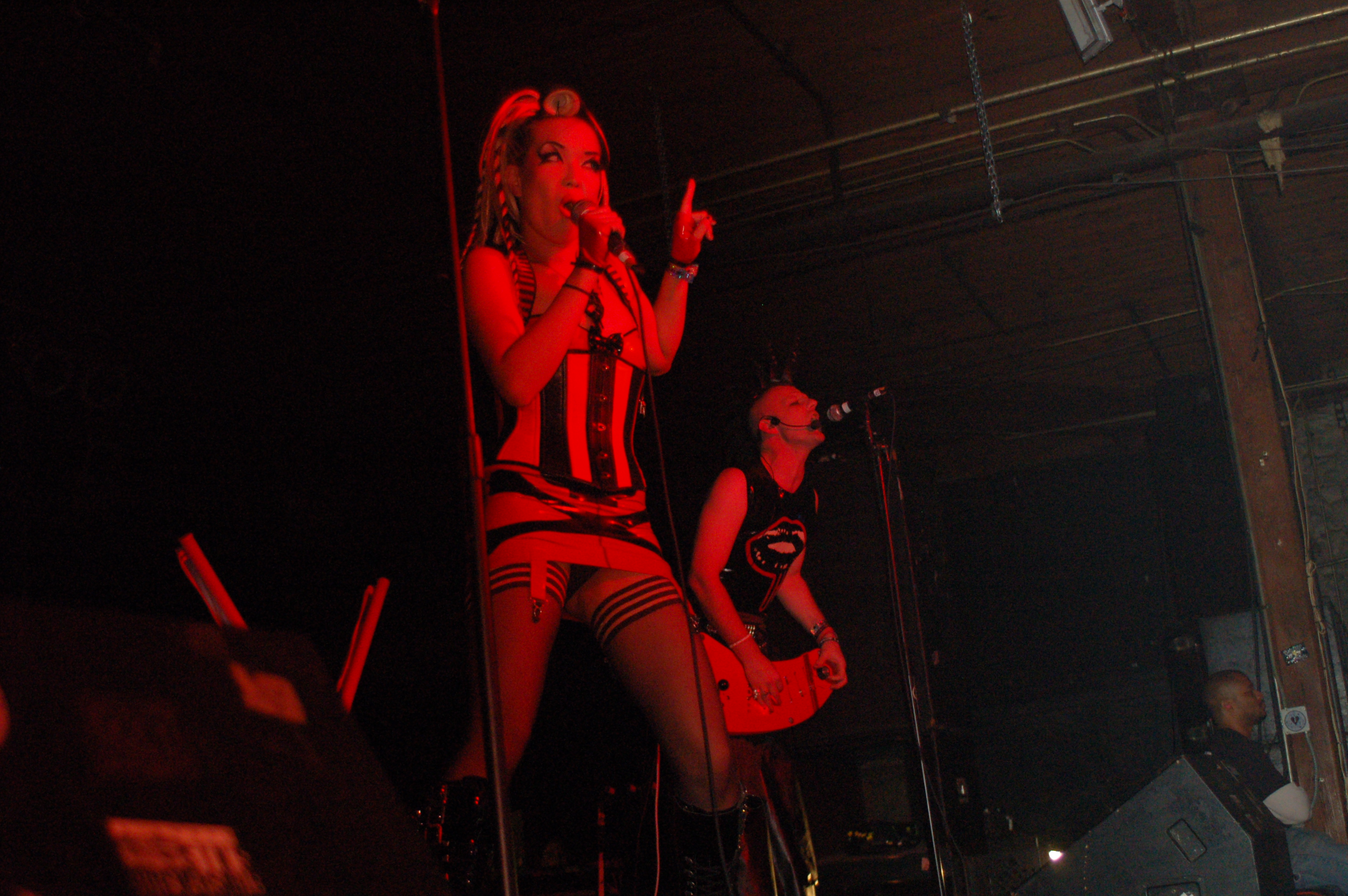 Angelspit at The Masquerade, 10-25-09